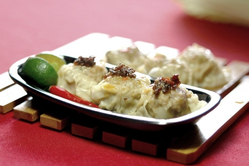 Siomai with calamansi (Calamondin) and siling mahaba (Bird's Eye Pepper), Philippines